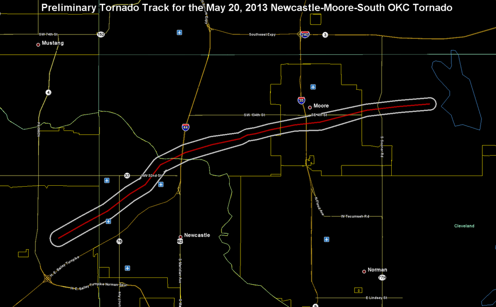 Preliminary track of the 20 May 2013 Newcastle-Moore, Oklahoma, tornado. Graphic prepared by the National Weather Service Weather Forecast Office in Norman, Oklahoma.